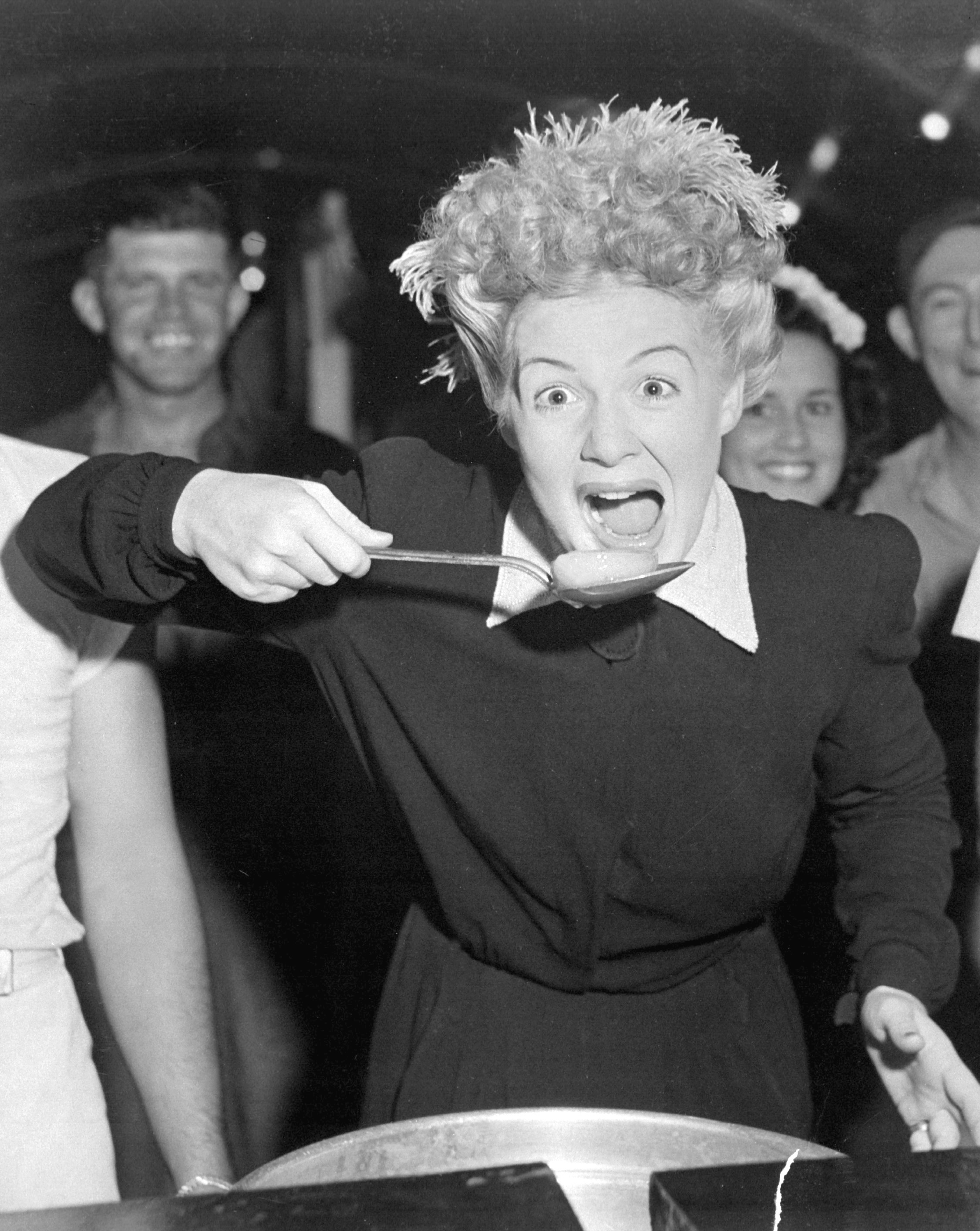 Betty Hutton visits chow halls with sailors and Marines in the Marshall Islands. Peering over the screen star's shoulder is Virginia Carrol, dancer with the Hutton troupe. ID: HD-SN-99-02415. National Archive# 080-G-294122 WAR & CONFLICT #: 756.